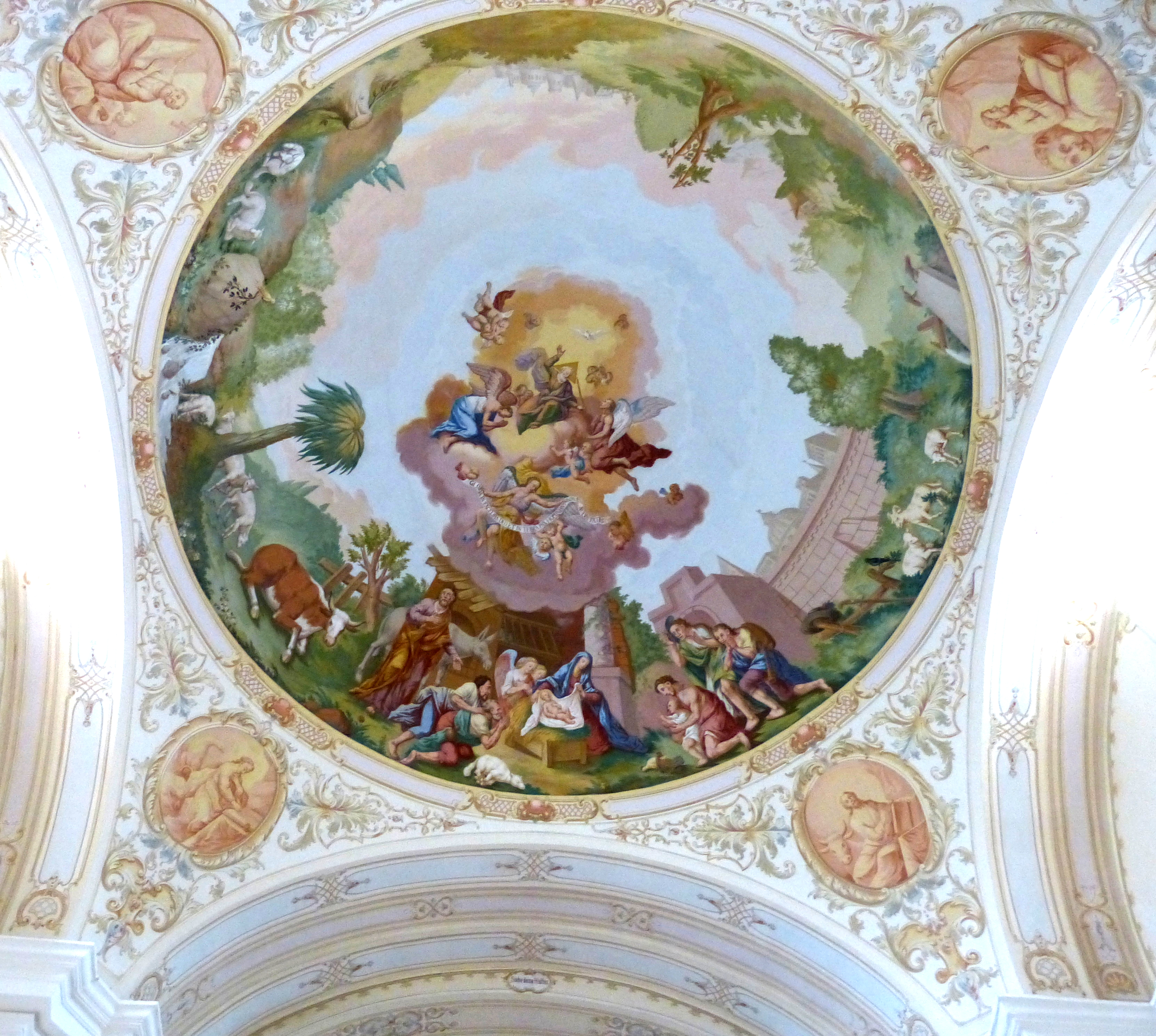 Bad Leonfelden ( Upper Austria ). Maria Schutz am Bründl church: Fresco ( 1792 ) by Andreas Kitzberger - Adoration by the Shepherds.